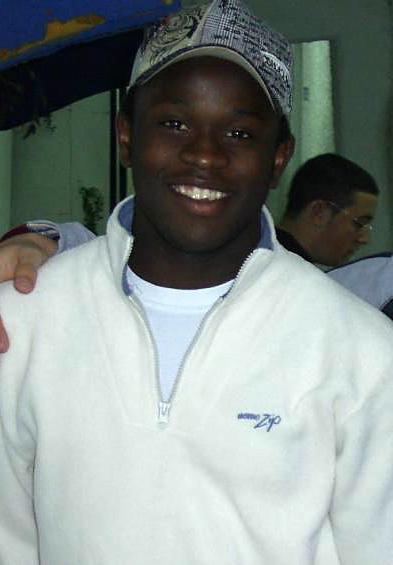 Toto Tamuz and some fan. The fan should be removed from the picture in the future.טוטו תמוז ואוהד